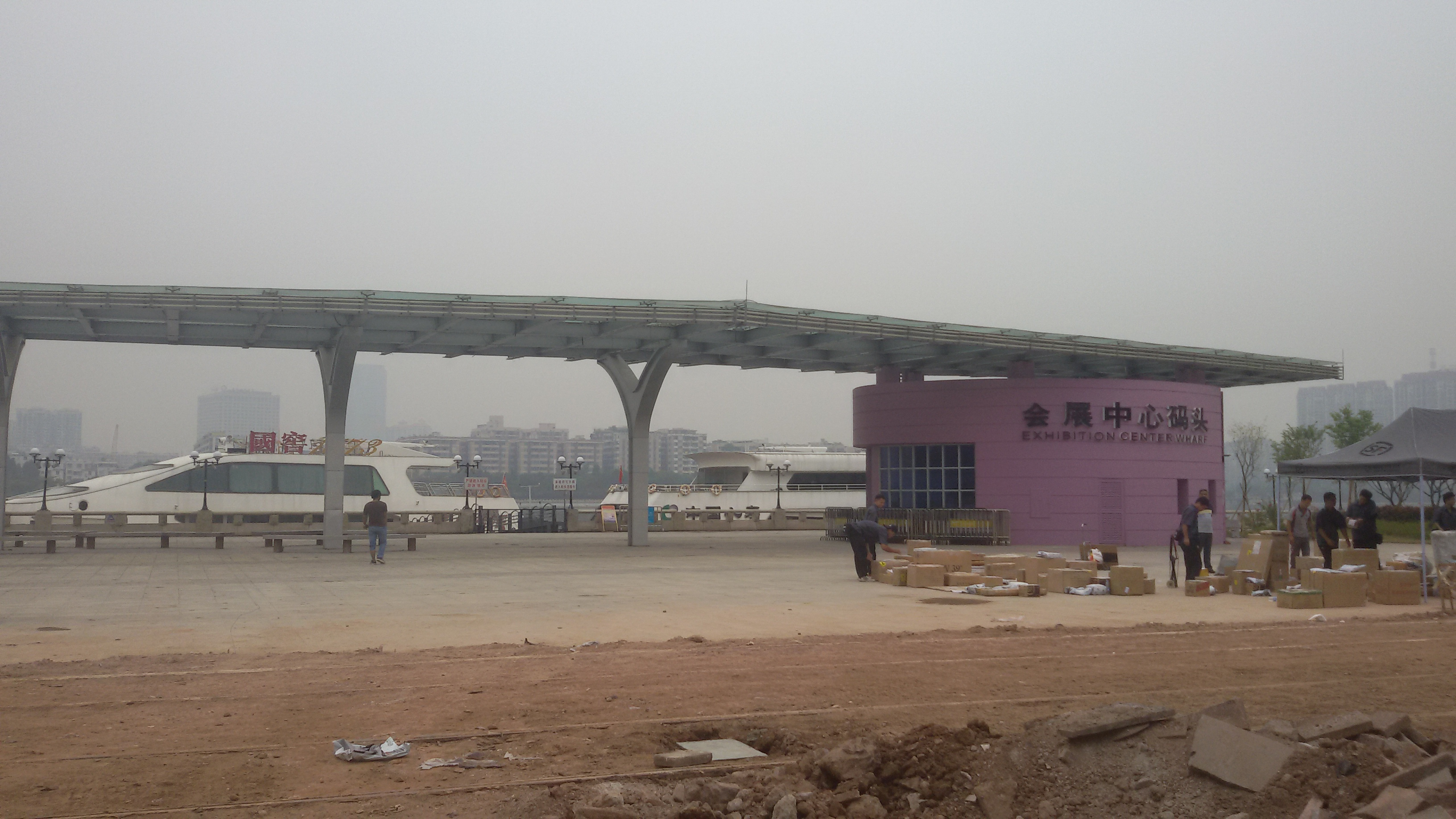 International Exhibition Center Wharf